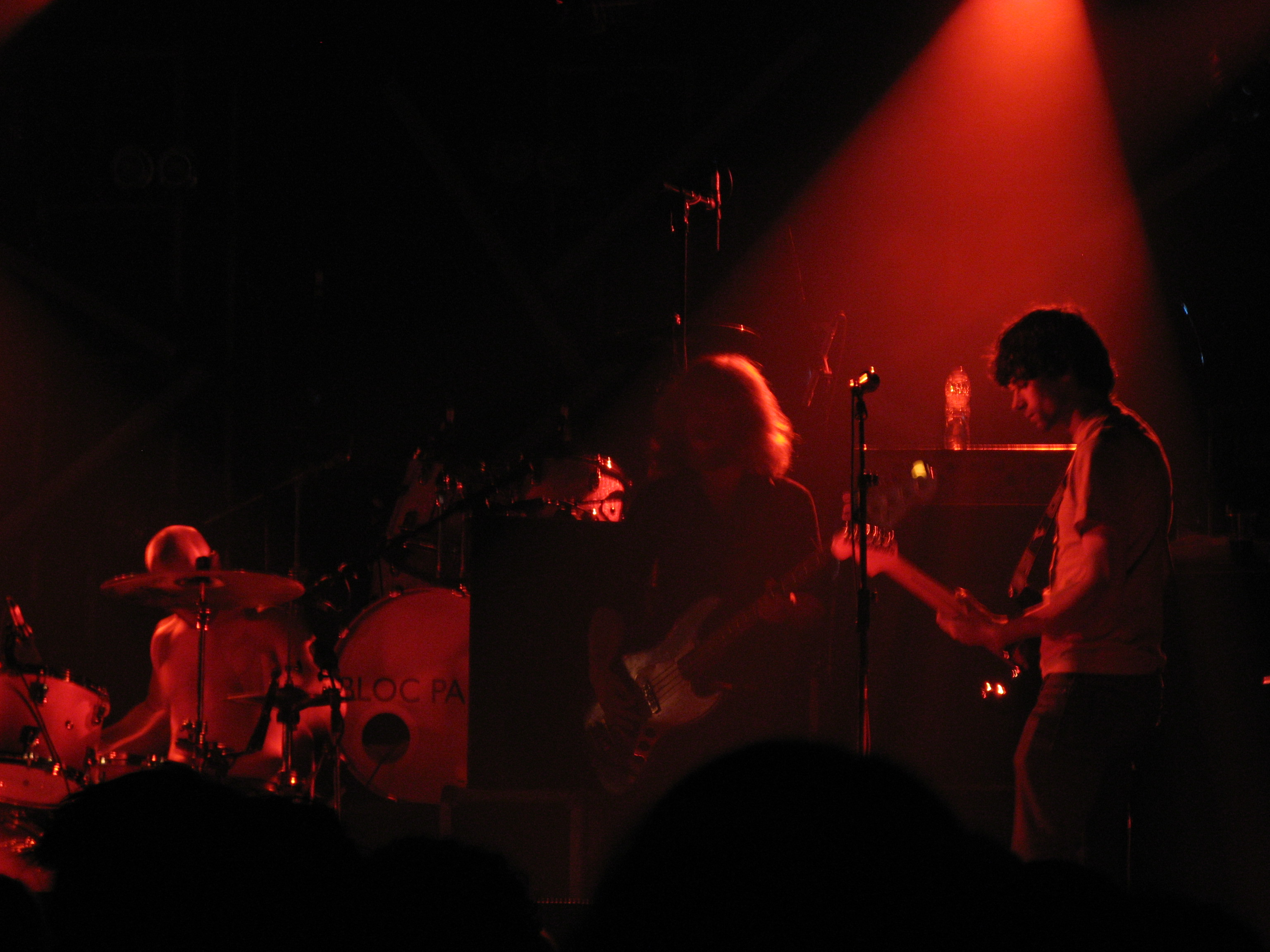 in their last song they were joined by Gordon Moakes of Bloc Party, the kind of guitar and a xylophone or something.